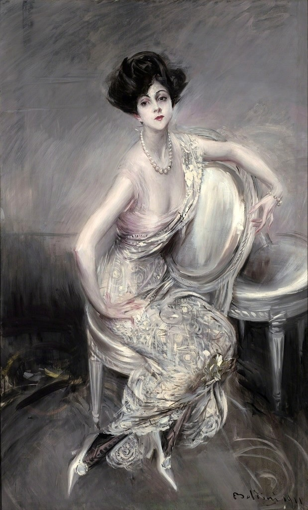 Portrait of Rita de Acosta Lydig